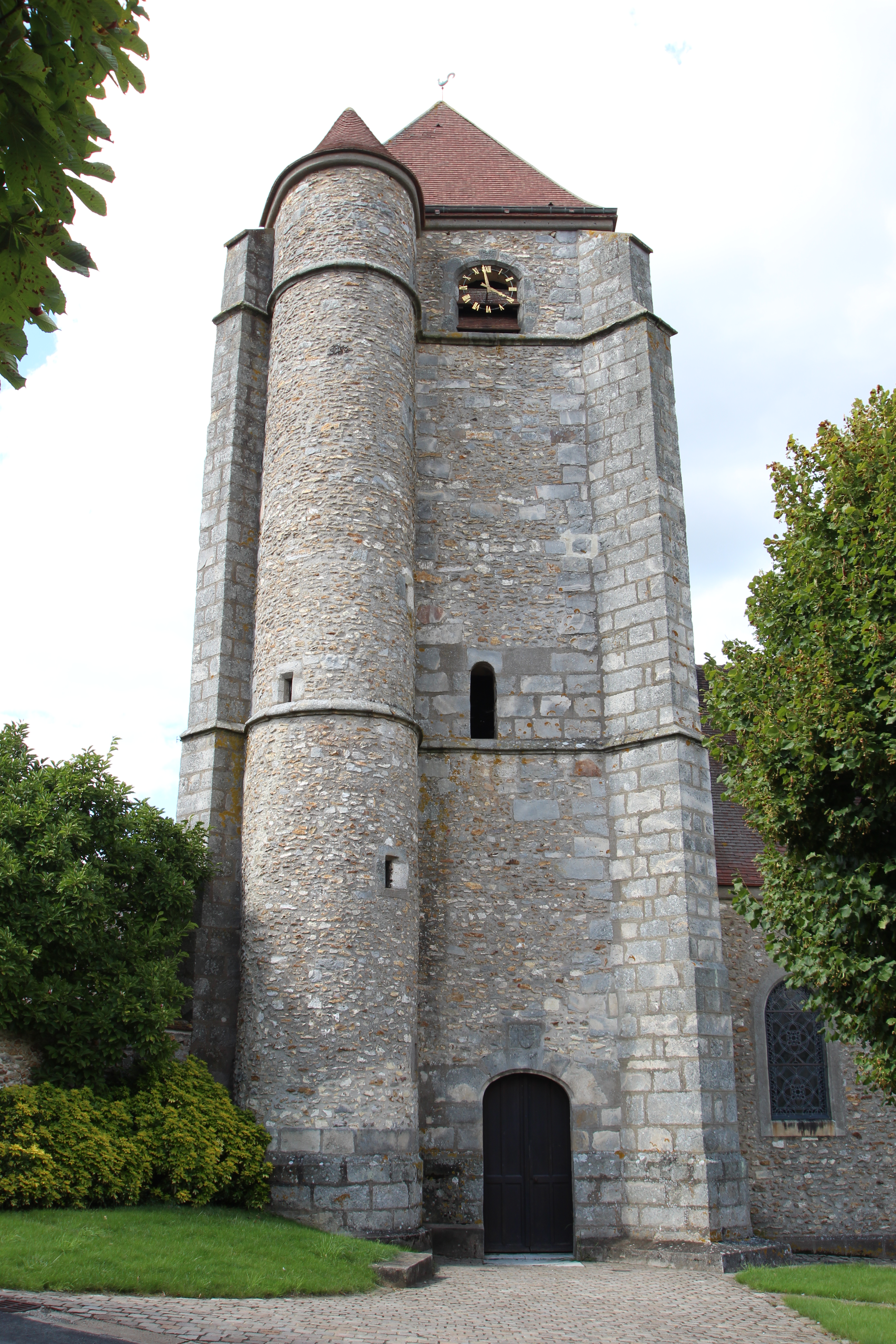 Sainte-Monégonde church in Orphin, France. Object location48° 34′ 48.18″ N, 1° 46′ 55.24″ E .